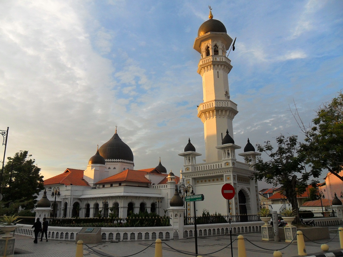 Kapitan Keling Mosque, Georgetown, Malaysia